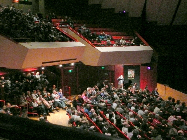 Inside the Hexagon Theatre. A fairly full house for Jethro Tull. See also 1756203.